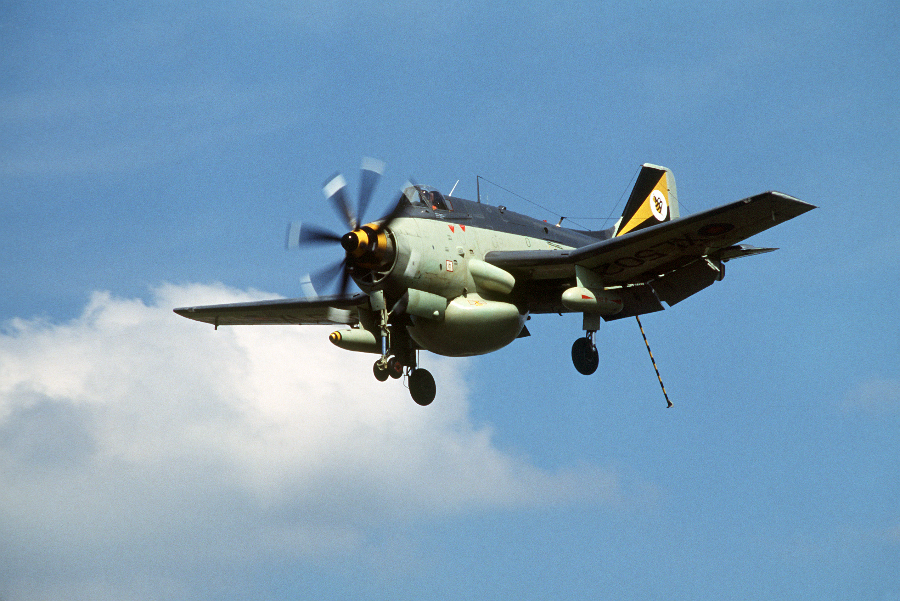 A Royal Navy Fairey Gannet AEW.3 (serial number XL502) in flight during Air Fete'88, a NATO aircraft display hosted by the U.S. Air Force's 513th Airborne Command and Control Wing, at RAF Mildenhall, Suffolk (UK). XL502 was the last Gannet in service with No 849 Squadron, Royal Navy, and the last Gannet in flyable condition. It is now owned by the Yorkshire Aviation Museum at Elvington, Yorkshire (UK).